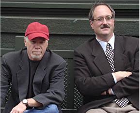 DeVito/Verdi partners. Sal DeVito on the left, Ellis Verdi on the Right